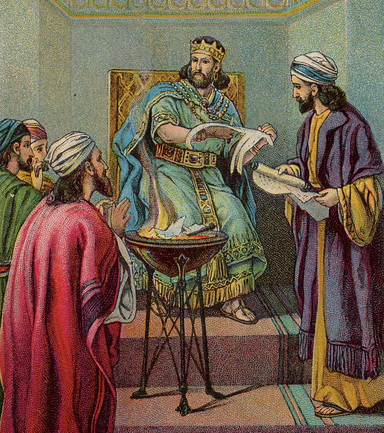 Jehoiakim Burns the Word of God; as in Jeremiah 36:21-32; illustration from a Bible card published by the Providence Lithograph Company